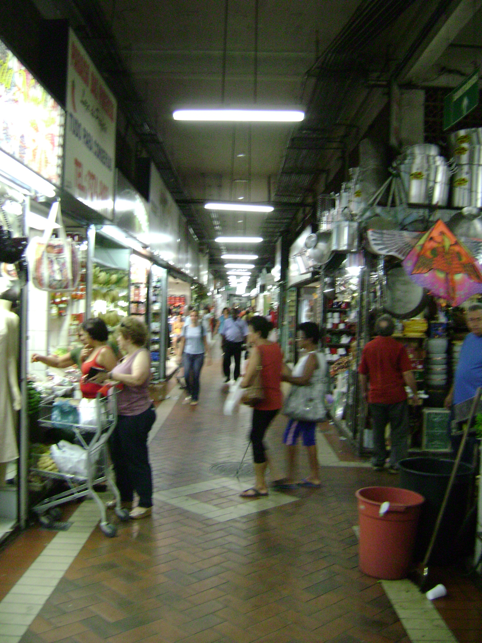 Corredor interno do Mercado Central, em Belo Horizonte, Brasil.